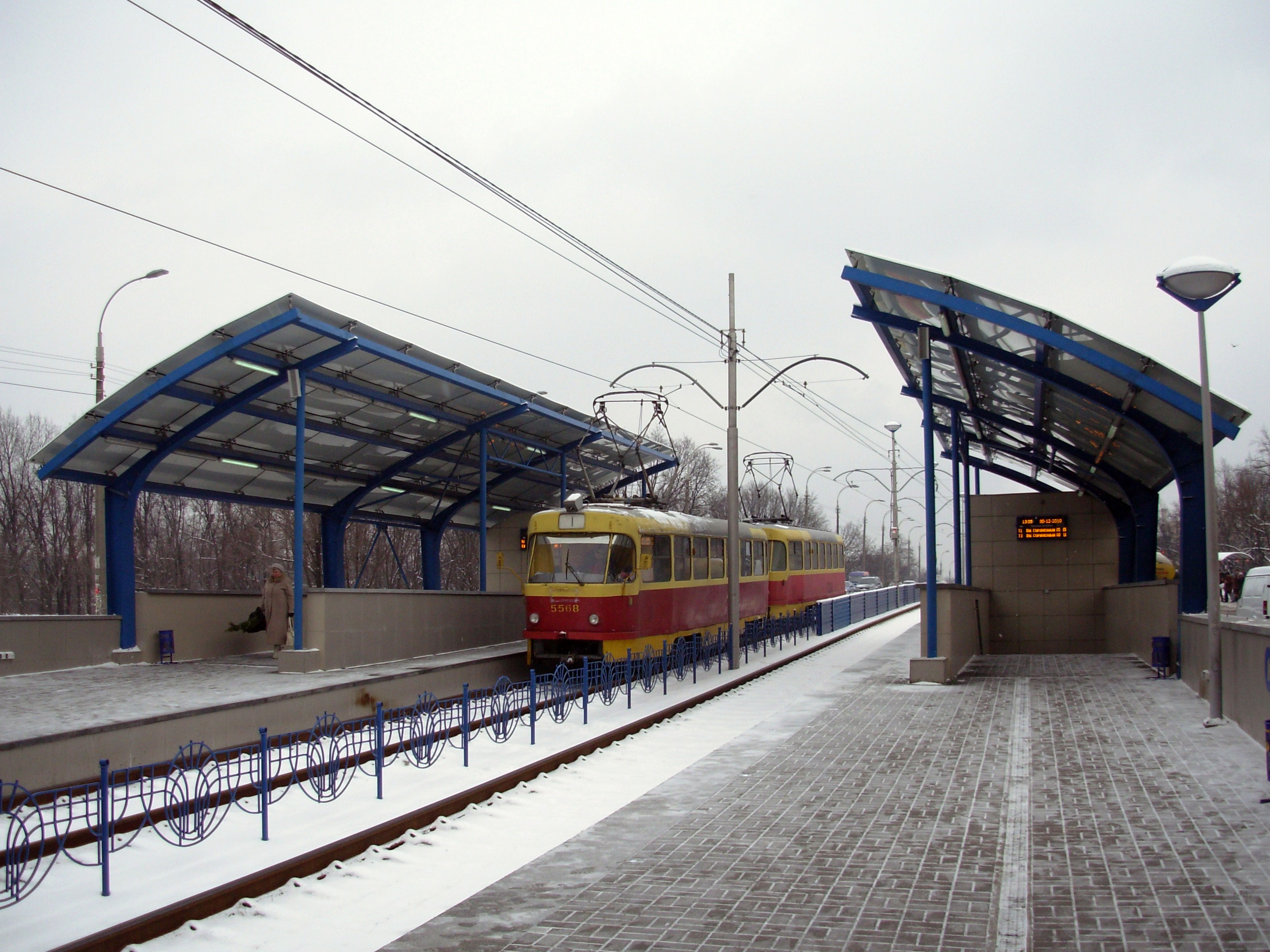 Simyi Sosninykh Station of Kyiv Fast Tram after renovation, 2010